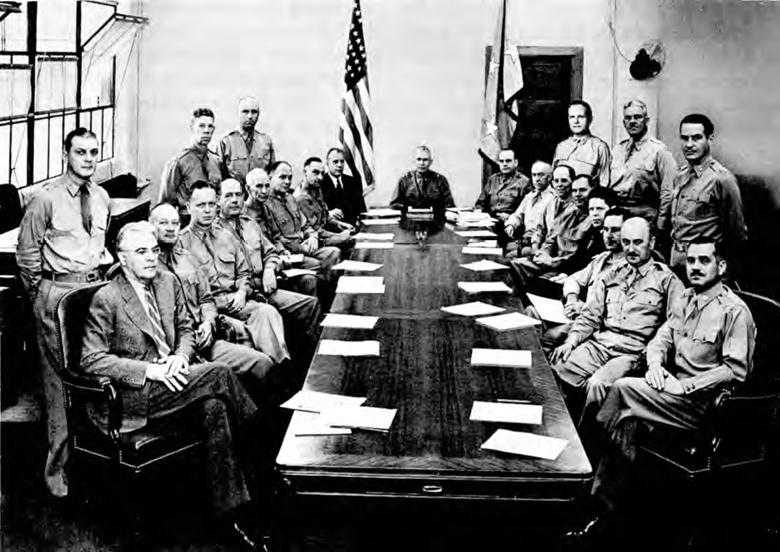 Seated, left to right: A. R. Glancy, Brig. Gens. James E. Wharton, Henry S. Aurand, Charles Hines, Charles D. Young, Maj. Gen. John P. Smith, Brig. Gen. Lucius D. Clay, Robert P. Patterson, USW, Lt. Gen. Brehon B. Somervell, Commanding General, Army Service Forces, Brig. Gens. Wilhelm D. Styer, LeRoy Lutes, Clarence R. Huebner, C. P. Gross, Mr. James P. Mitchell, Cols. Frank A. Heileman, A. Robert Ginsburgh, and Albert J. Browning. Standing: Cols. Clinton F. Robinson, Walter A. Wood, Jr., Robinson E. Duff, Brig. Gen. A. H. Carter, Col. J. N. Dalton, and Capt. Harold K. Hastings.